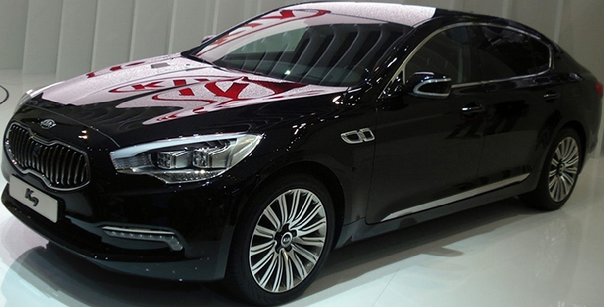 Kia K9